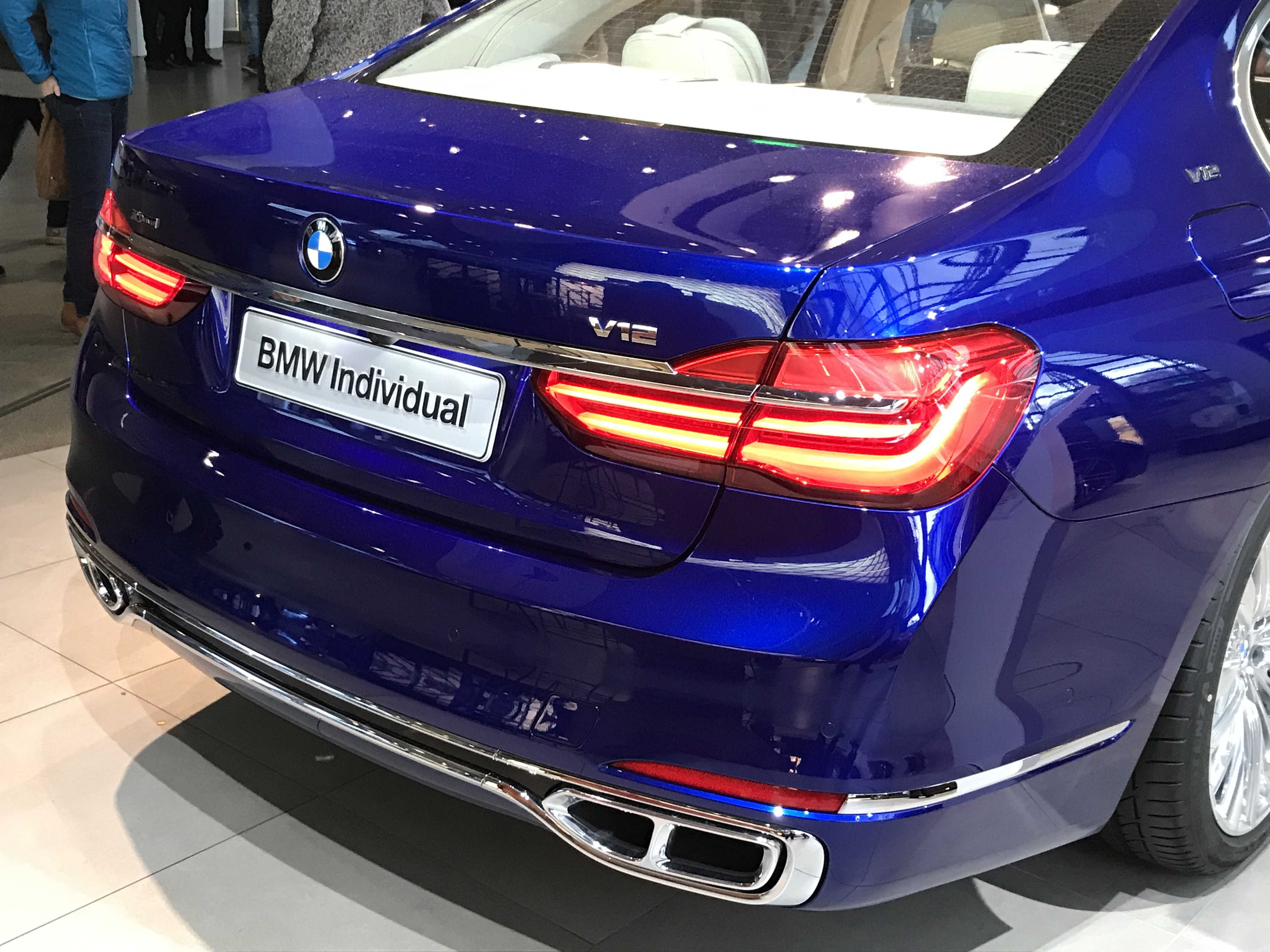 Closeup of the BMW M760Li xDrive's rear inside BMW Welt.